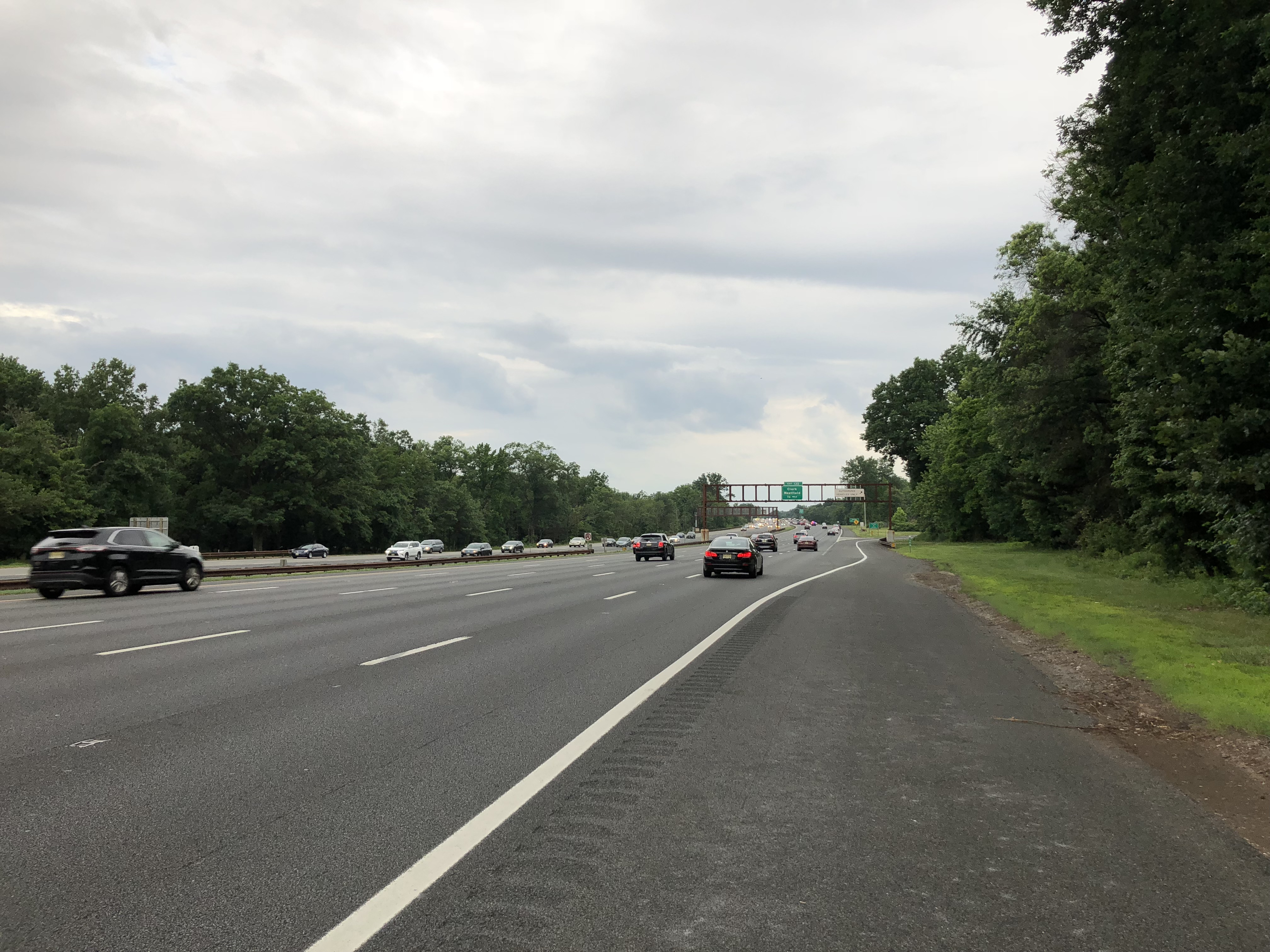 View south along New Jersey State Route 444 (Garden State Parkway) between Exit 136 and Exit 135 in Clark Township, Union County, New Jersey